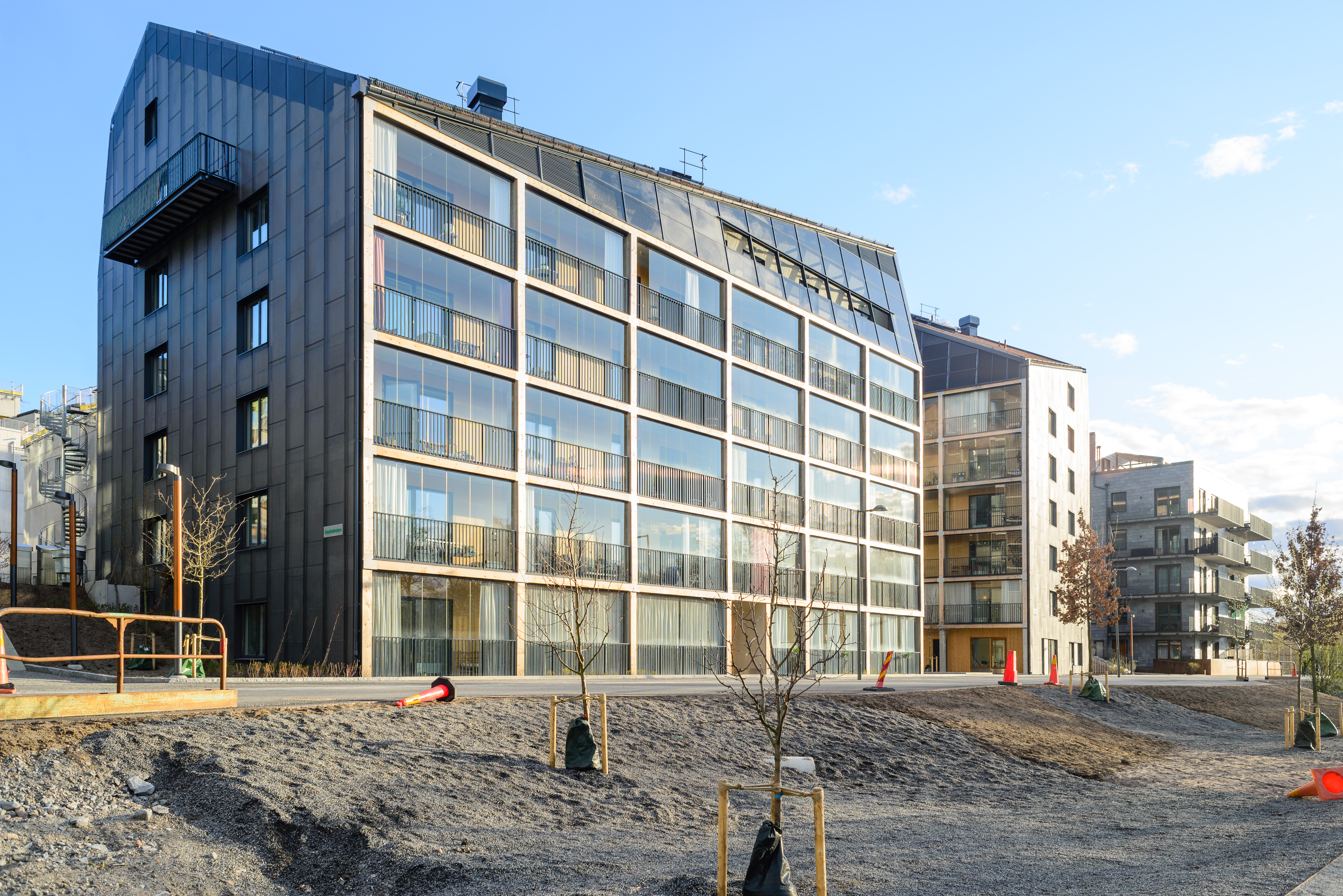 Stockholmshems plusenergihus is 2 new resiential buildings in Norra Djurgårdsstaden built by Stockholmshem.